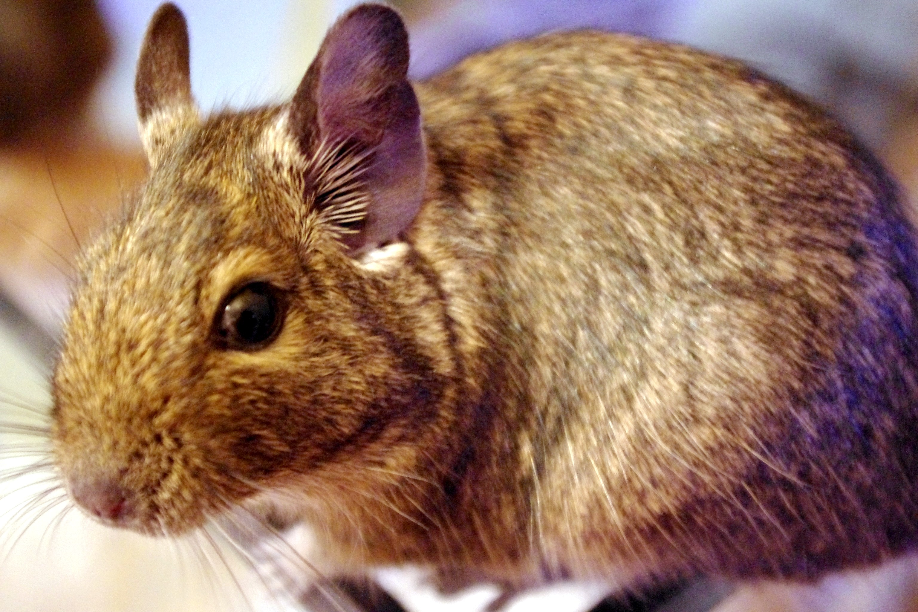 Colouration of Octodon degus